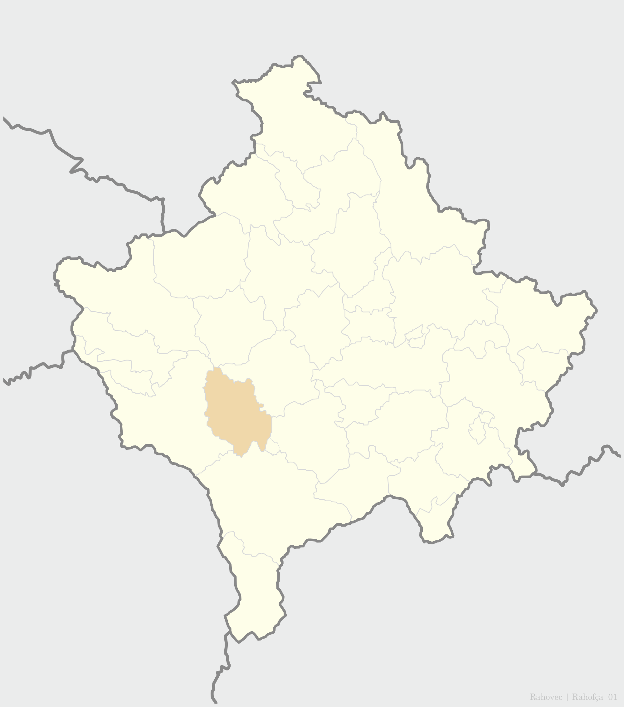 Municipality of Orahovac map